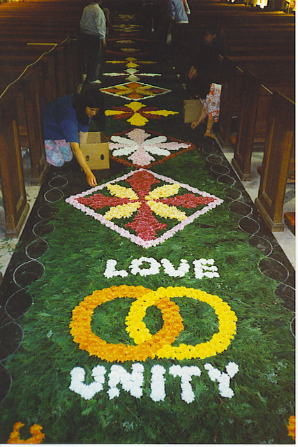 Floral Carpet, in Arundel Cathedral annually laid, petal by petal, in the aisle - for Corpus Christi